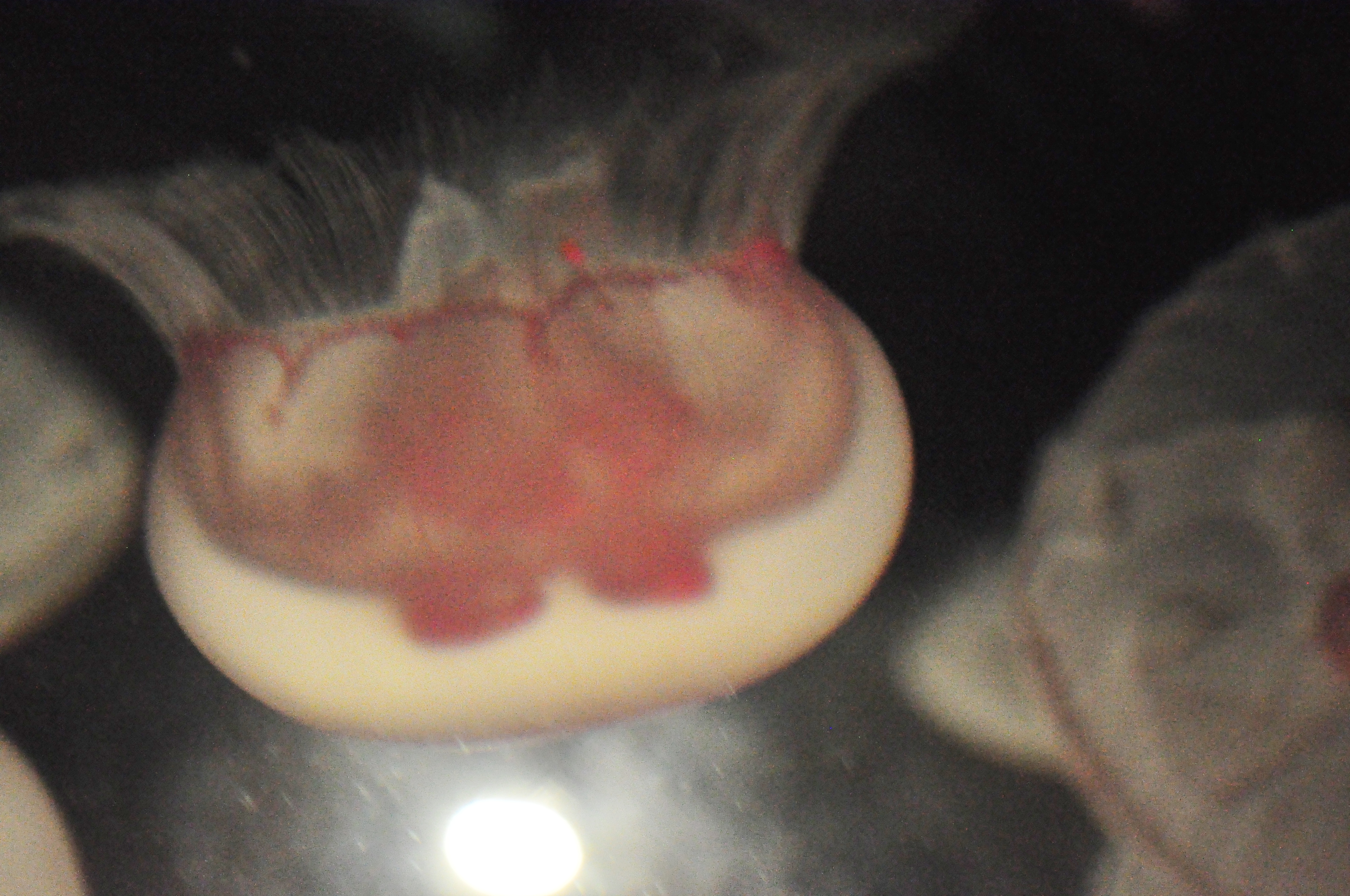 Seattle Aquarium 009 - Moon Jellies